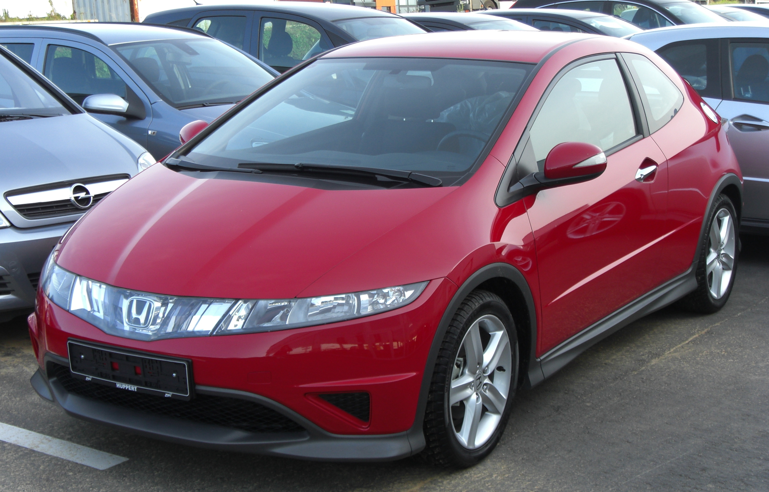 Honda Civic Type S